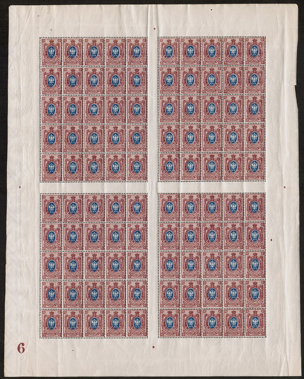 The eighteenth standard issue. Russian Imperial Eagle and Posthorns with Thunderbolts. 15k brown violet and blue. Stamp printing sheet. Re-engraved. Picture size 16.75 x 22.75 mm